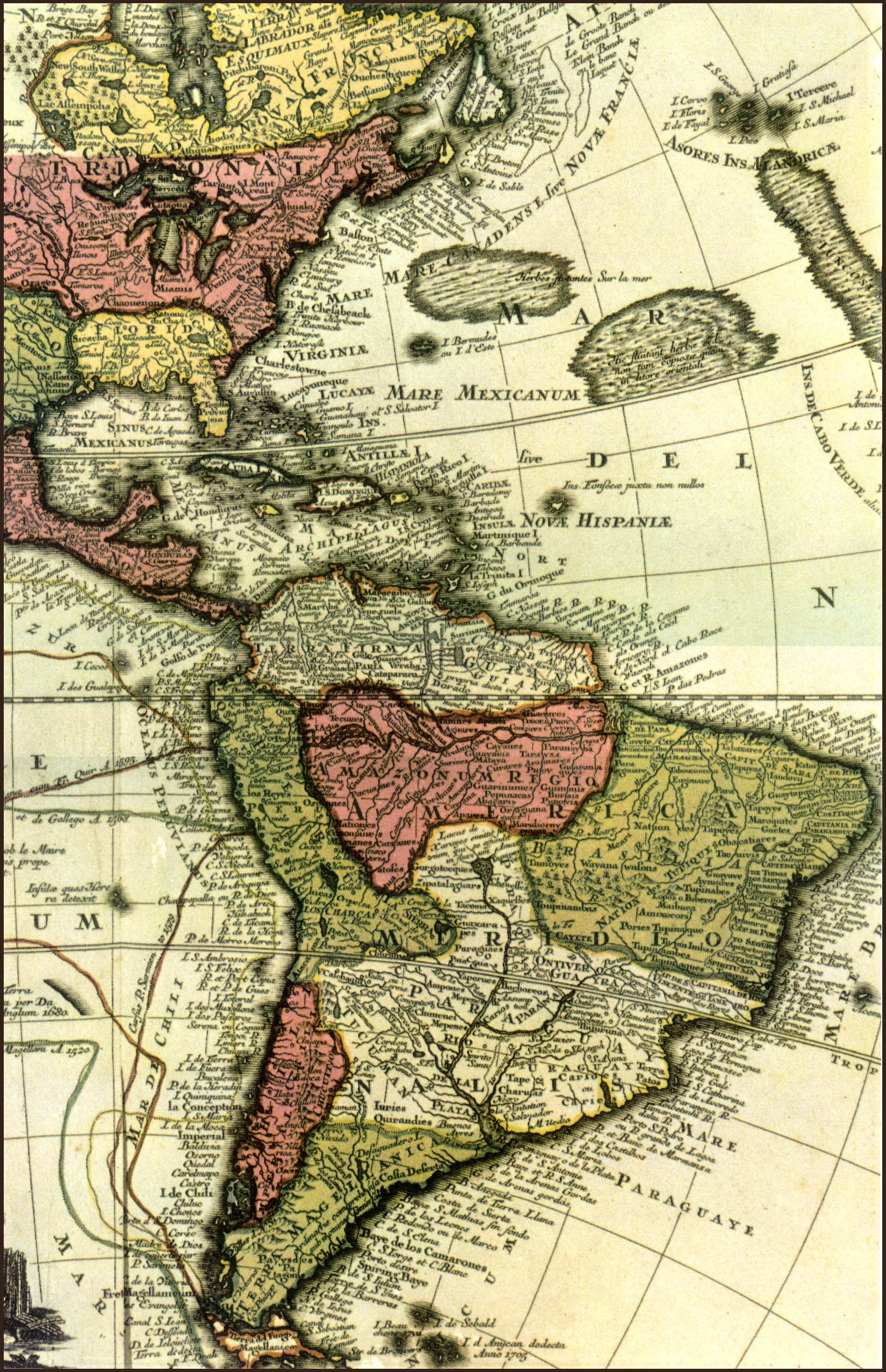 Map of the Americas, anno 1705